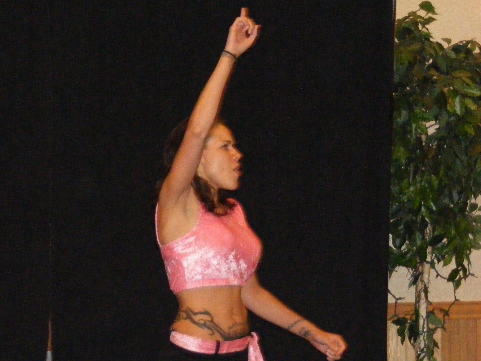 Professional wrestler Mercedes Martinez at an NWA-LS show in June 2010, in Manchester, NH.